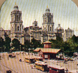 Zocalo and Cathedral, Mexico City. From stereocard c 1900